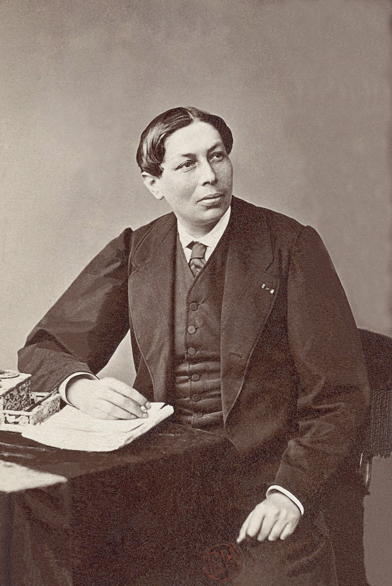 Albert Wolff (1835 - 1891), french journalist of Le Figaro.